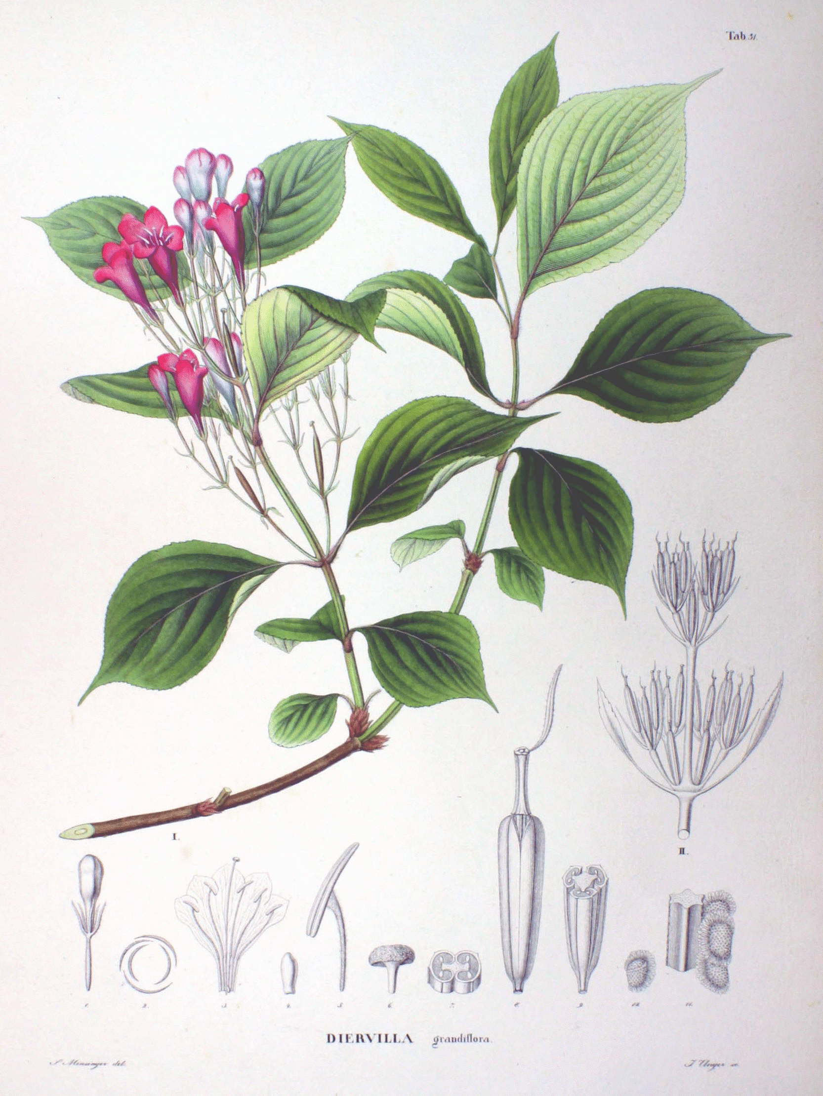 Plate from book